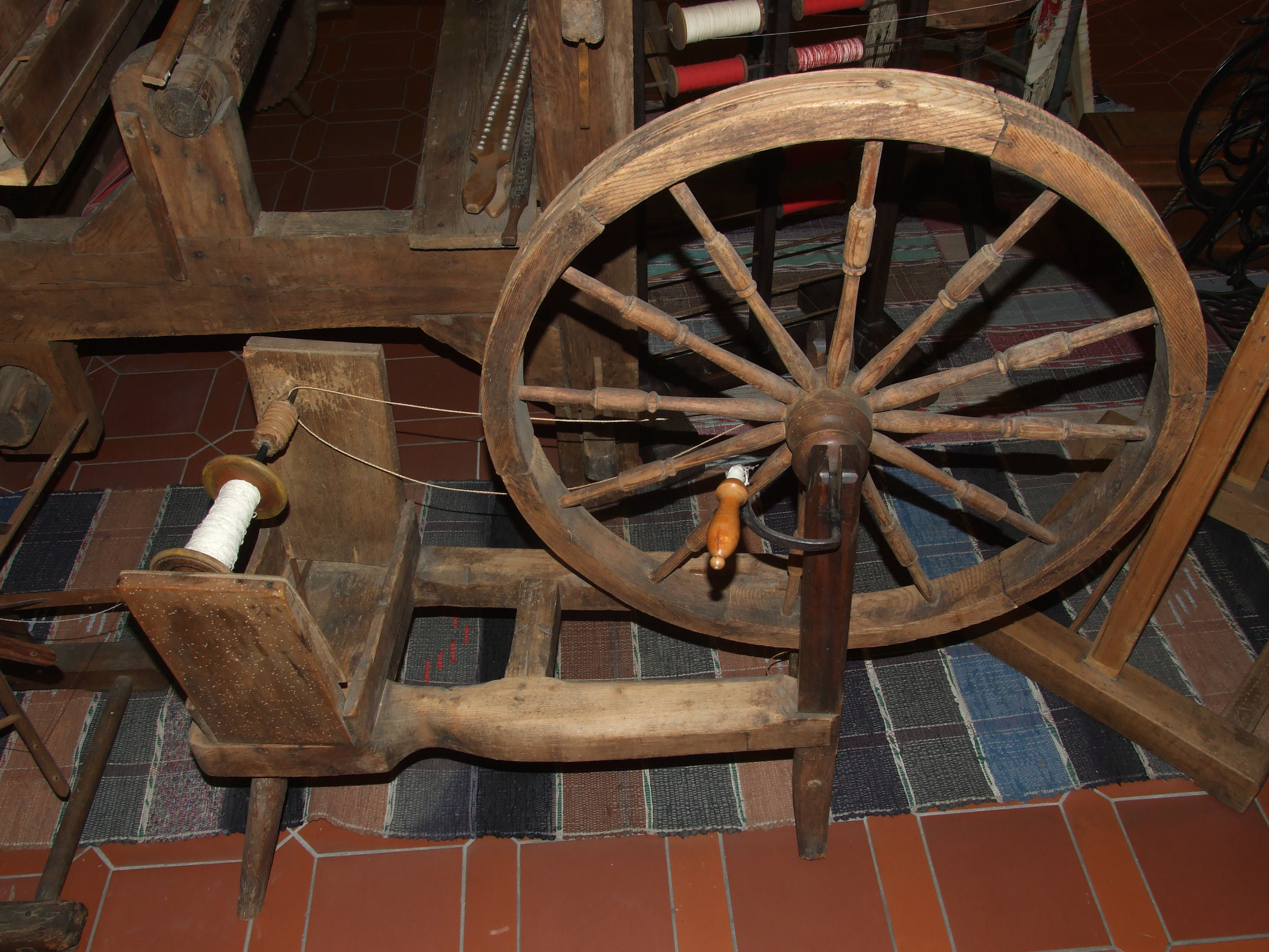 Municipal museum Nové Město nad Metují